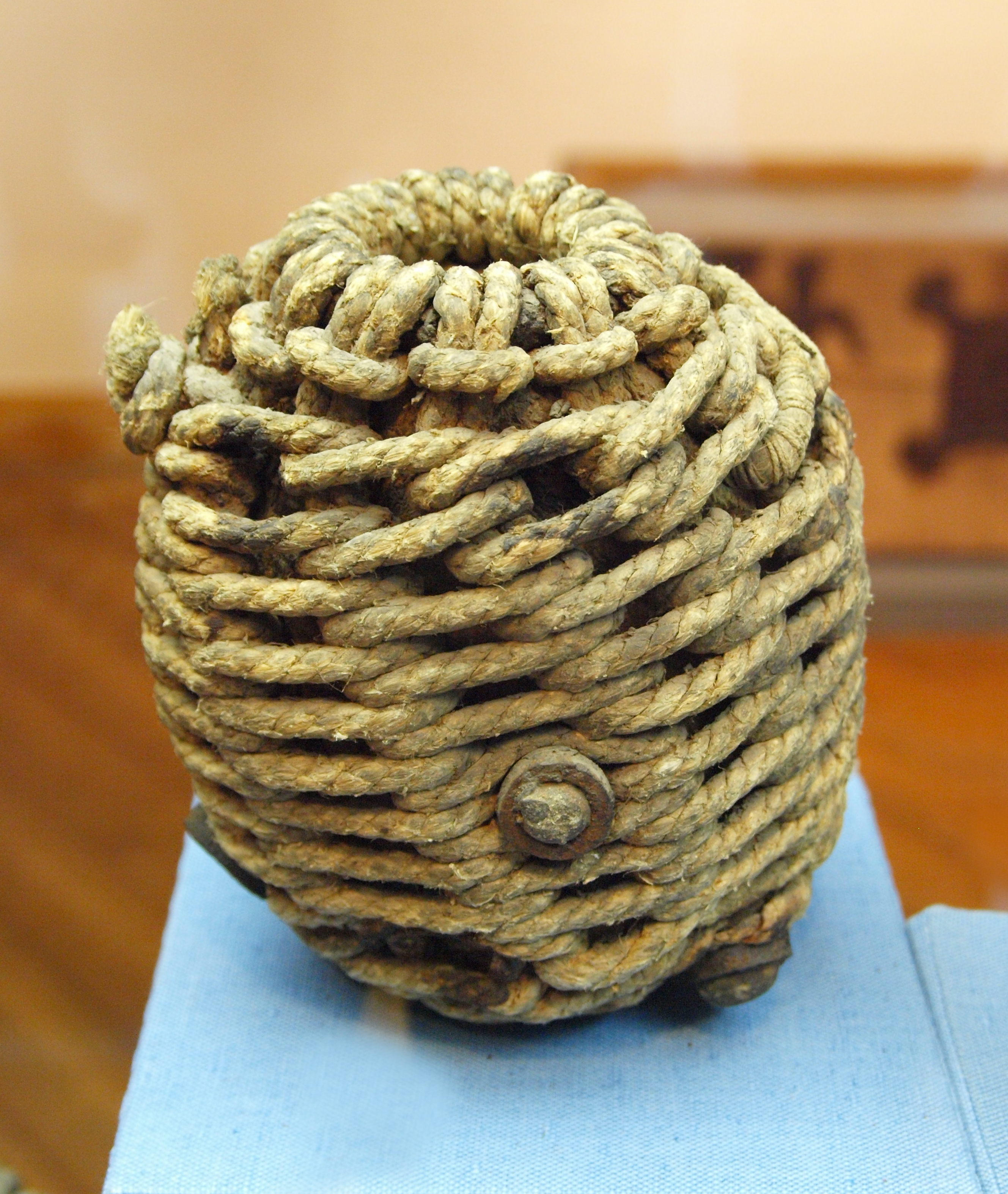 A fire or light ball with inserted crackers of the 16th/17th Century. Height: 16 cm (6.29 ″); Diameter: 13 cm (5.11 ″) dimensions QS:P2048,16.0U174728;P2386,13.0U174728